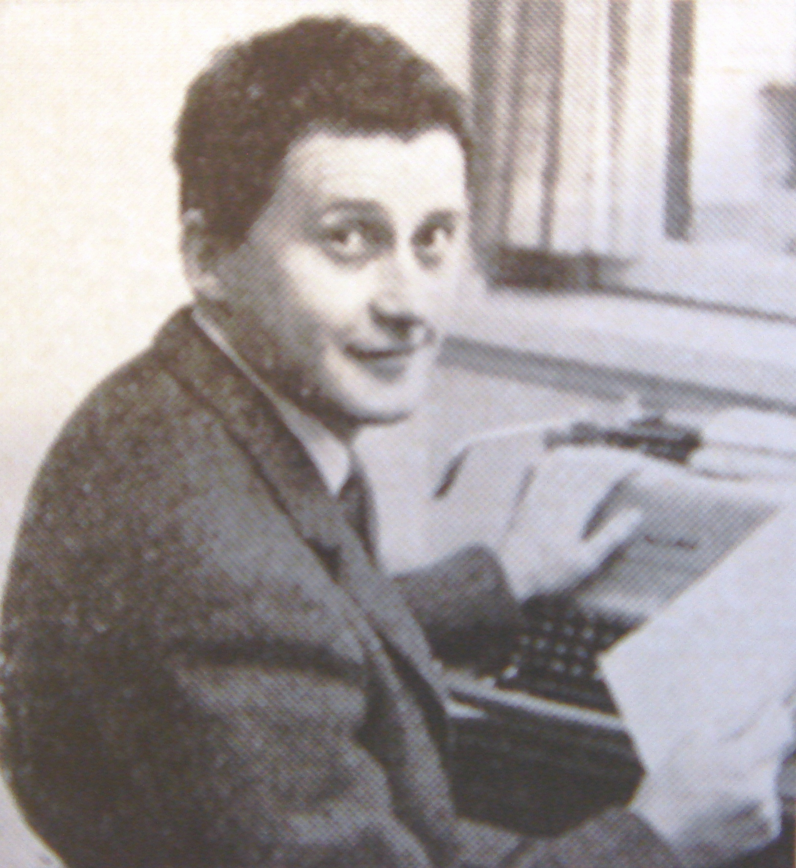 Swedish parliament member and minister of finance Kjell-Olof Feldt